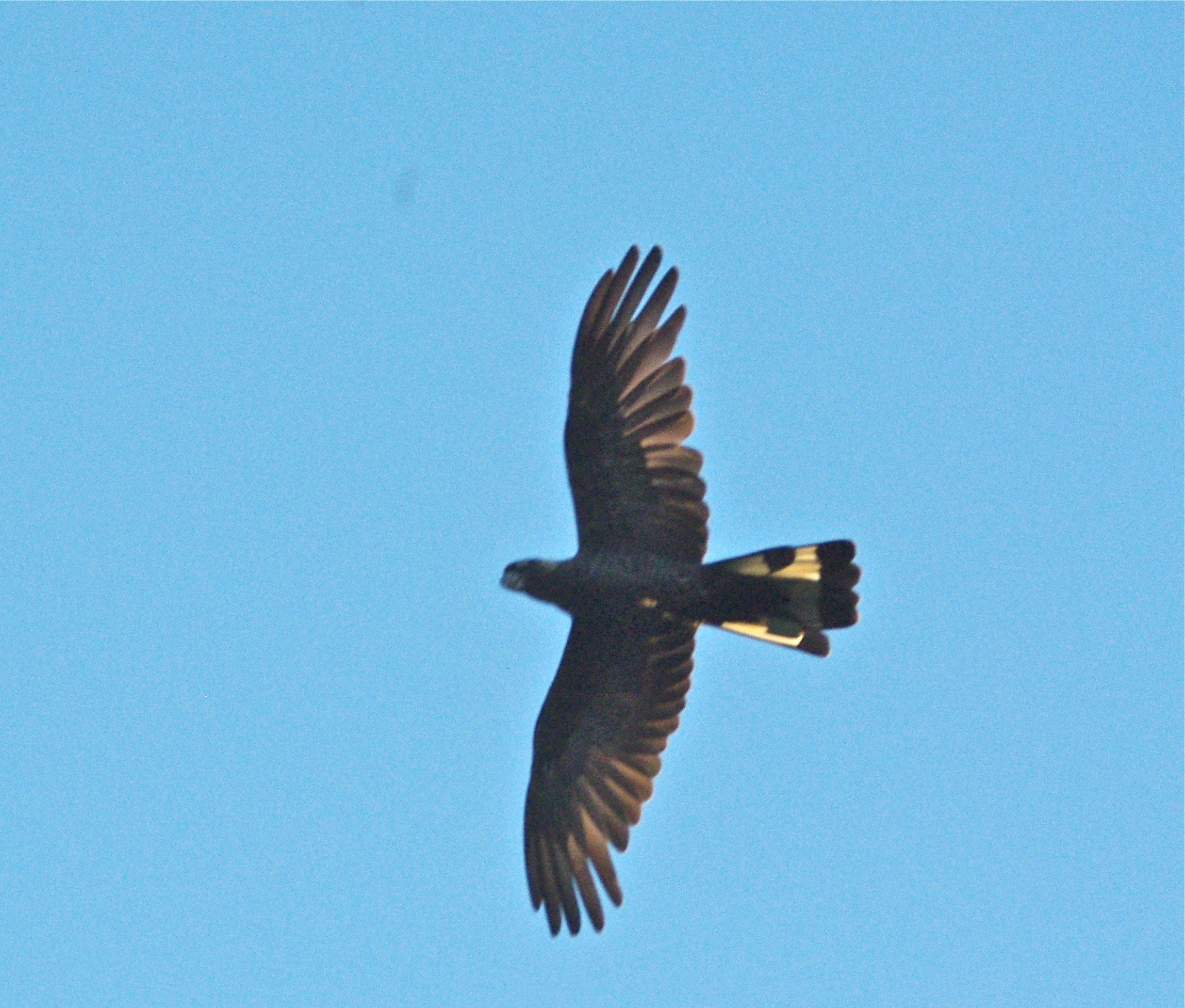 Calyptorhynchus latirostris in flight, Darling Range, Western Australia